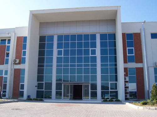 A-1 Building, İYTE Teknopark